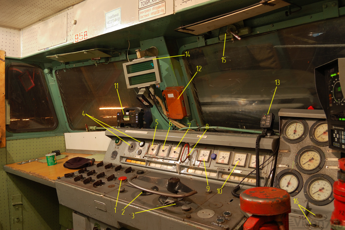 1 - short-cirquit breaker off button, 2 - reverser handle socket, 3 - throttle handle, 4 - train heating switch and blinker, 5 - battery voltmeter, 6 - EP brake voltmeter, 7 - kV, 8 - emergency brake handle, 9 - throttle indicator, 10 - traction ammeters, 11 - radio main panel, 12 - vigilance controller, 13 - radio aux panel, 14 - automatic train operation, 15 - wiper drive, 16 - whistle electric valves